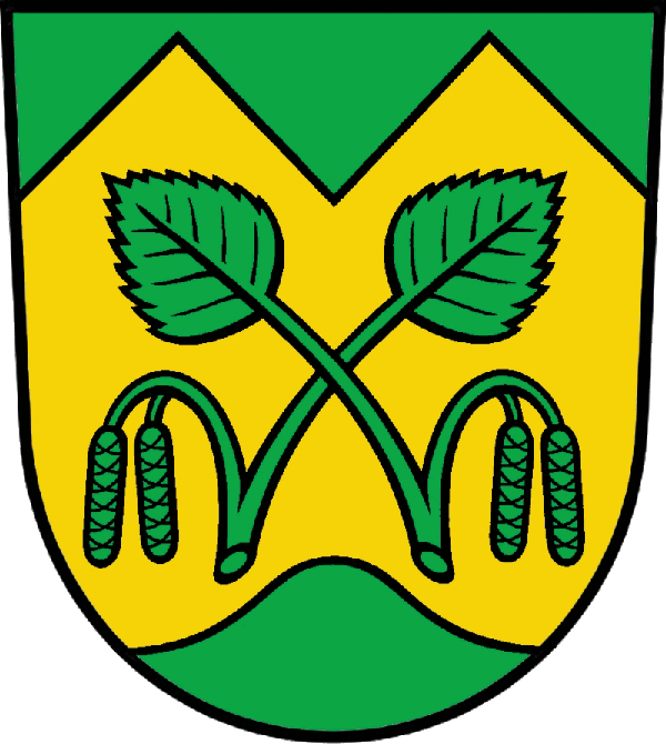 Coat of arms of Berkholz-Meyenburg